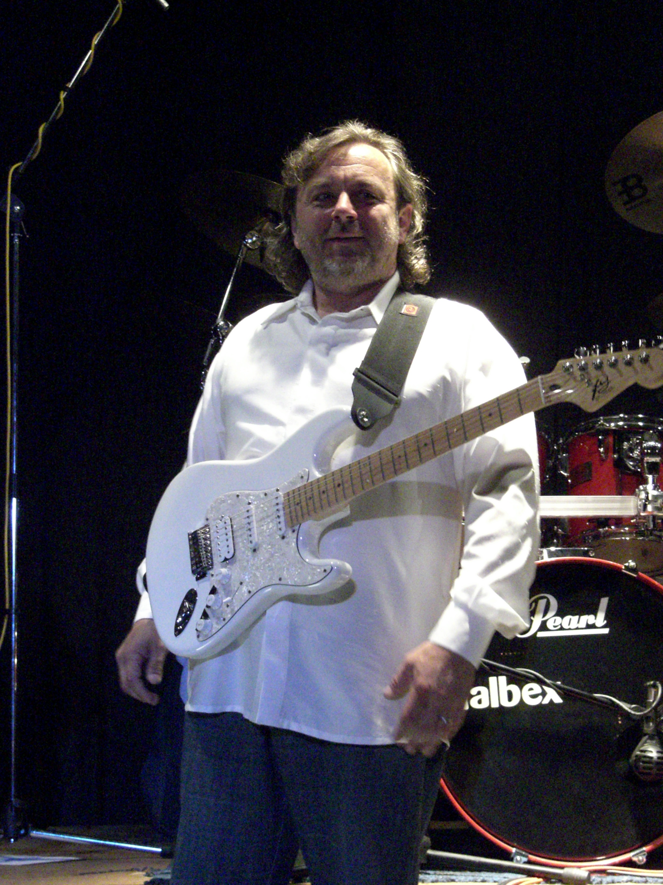 Michal Pavlíček.